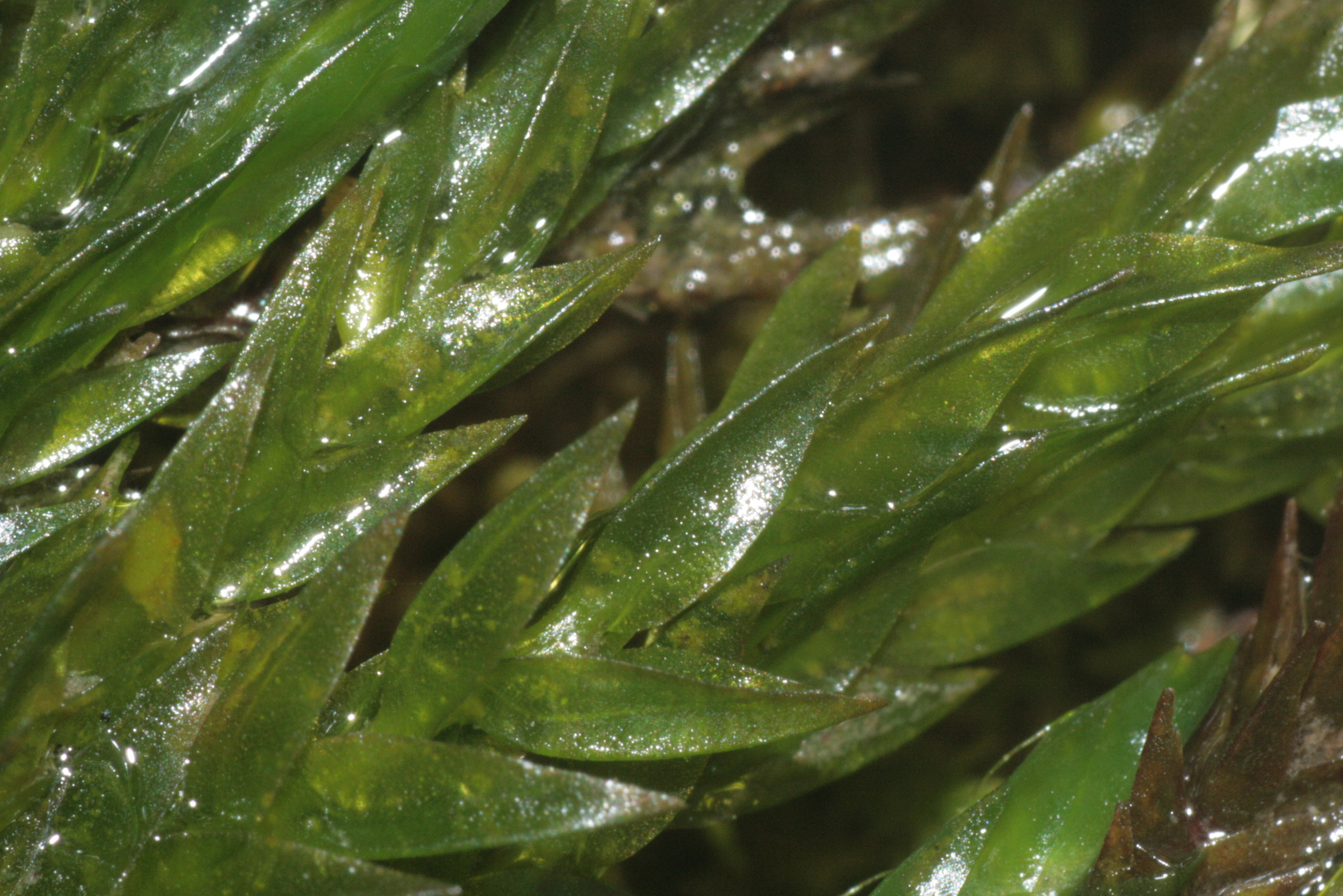 Fontinalis antipyretica